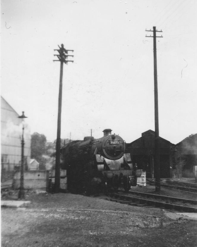 British Railways Class 4 4-6-0 locomotive No 75073 at Bath Green Park locomotive shed in 1964 or 1965